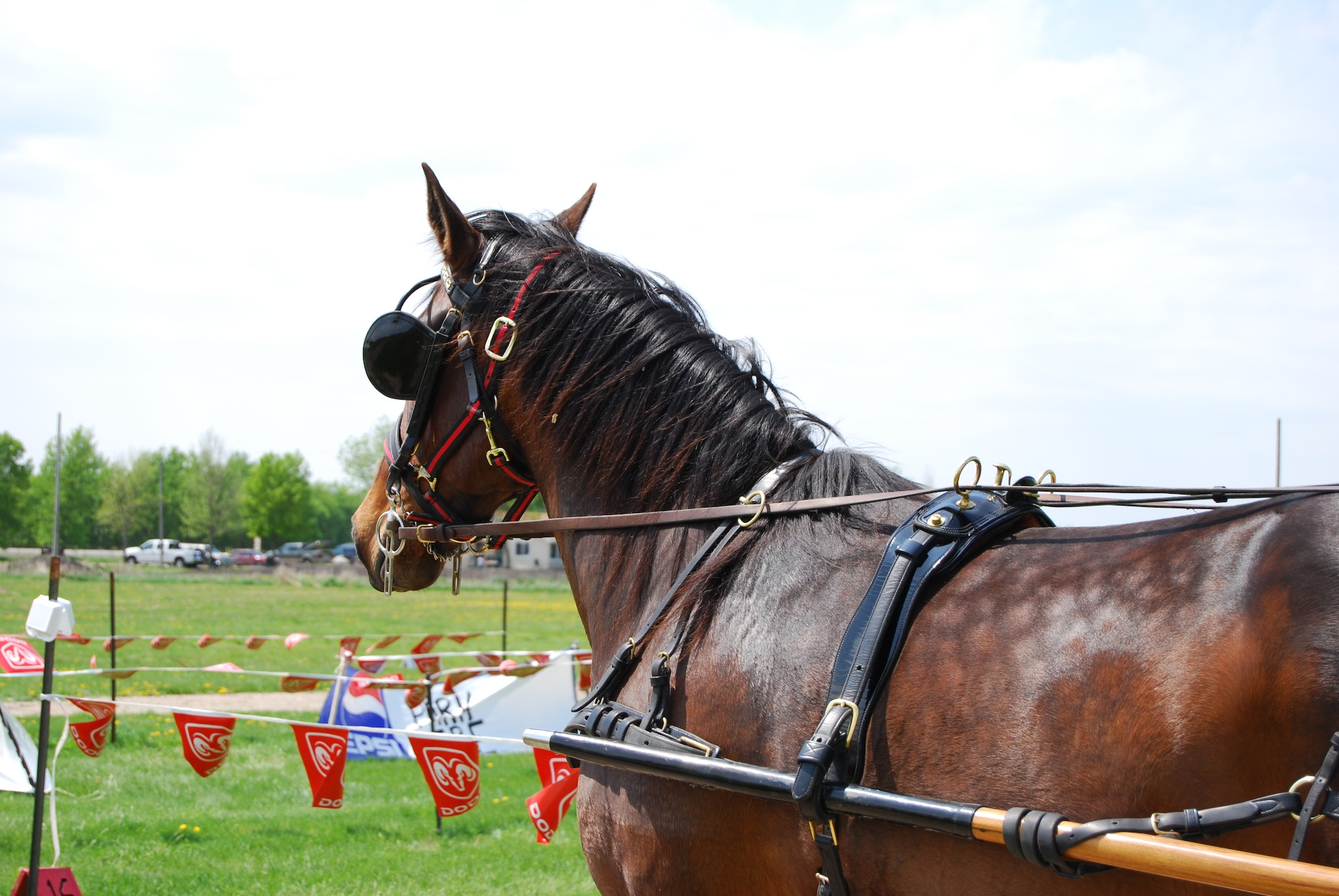 Sioux is all dressed up in a borrowed harness. She is hitched to a custom made two-wheel cart. We don't normally leave her halter on when she is harnessed, but since this was a borrowed harness, we wanted the extra control while we adjusted it. This photo was taken at the Buffalo Rodeo Grounds, in Buffalo, MN during the Whips and Wheels Carriage Club Fun Day.